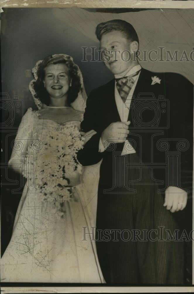 1949 Press Photo diving champ Zoe Ann Olsen weds football star Jackie Jensen